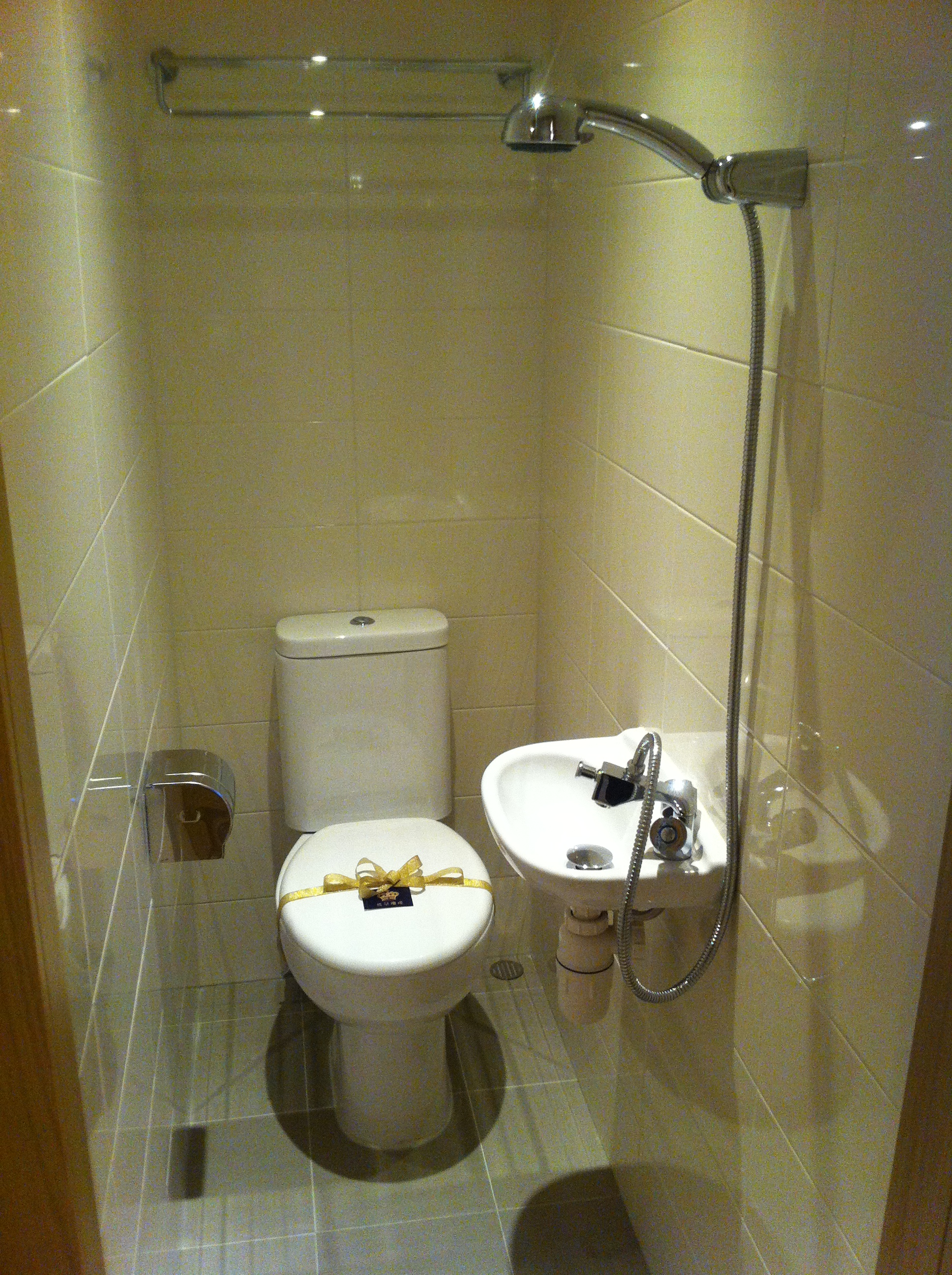 香港島英皇集團zh:樓花示位